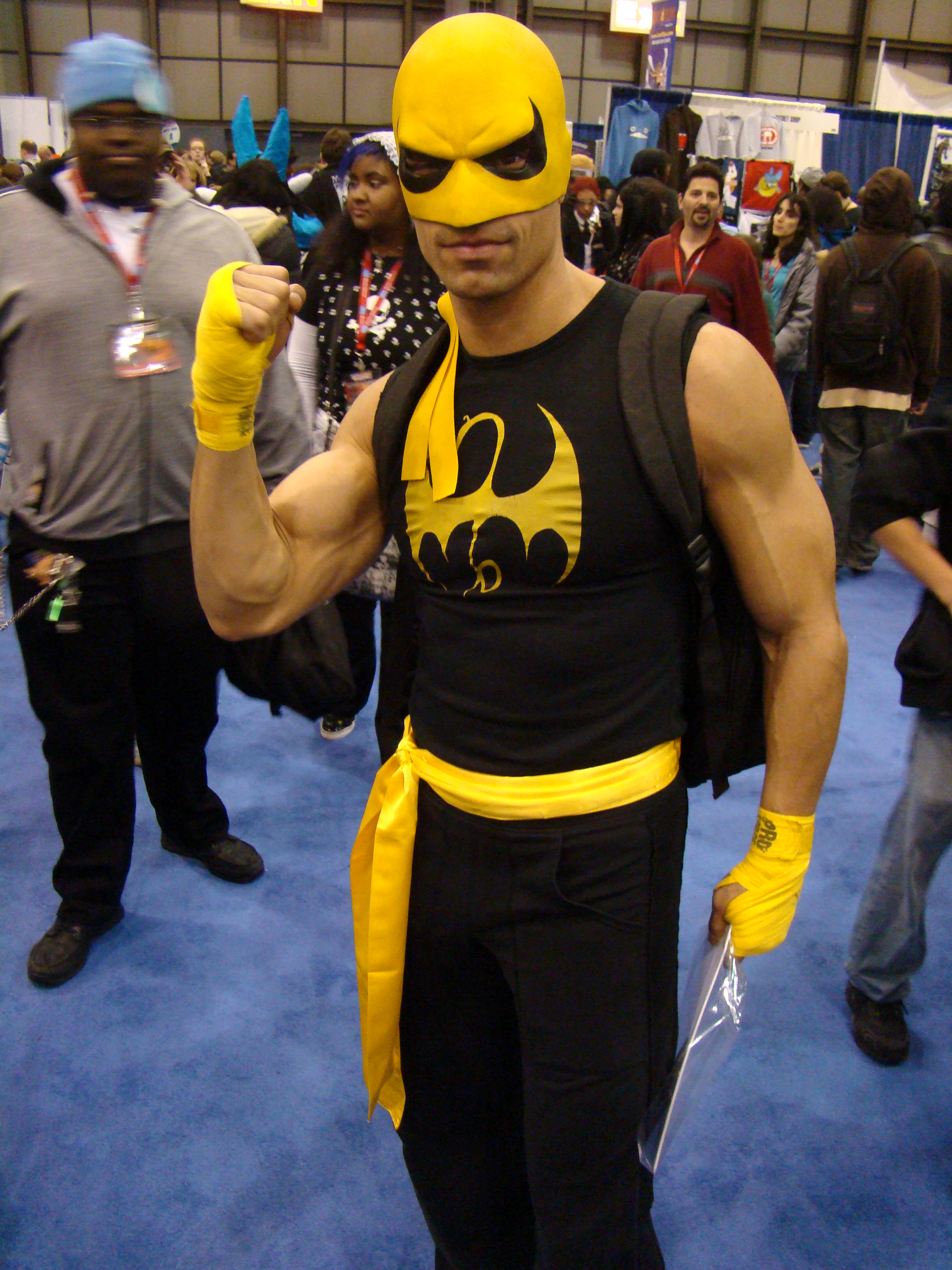 danny rand, iron fist New York Comic-Con, Saturday, February7th, 2009. If you see yourself in this or any of my other pictures, let me know in the comments, or by emailing me at loser: [at] istolethe [dot] tv.